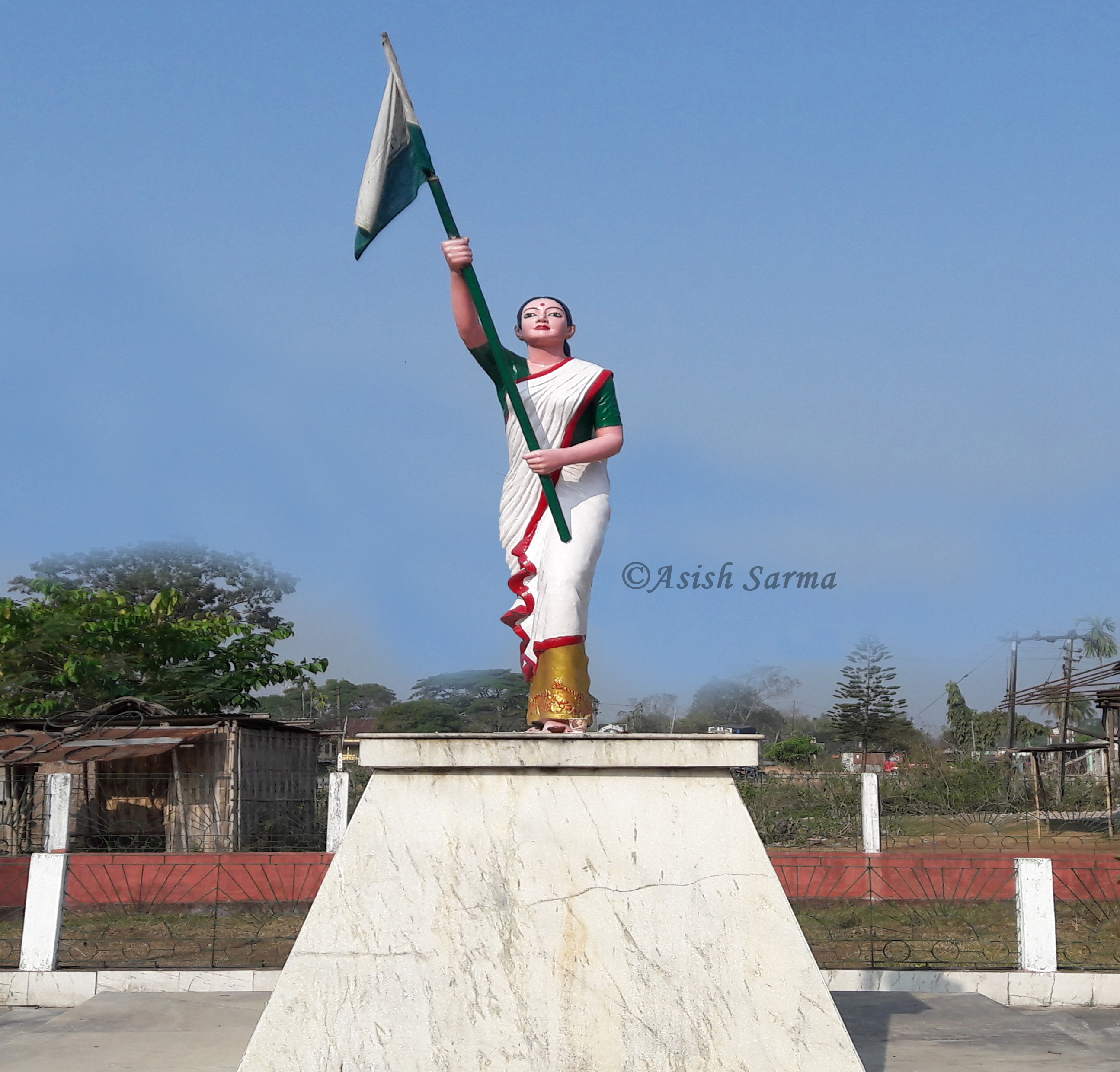 Statue of martyr Kanaklata Baruah; an Indian freedom fighter from Gohpur,Assam who was shot dead while leading a procession bearing the National Flag during the Quit India Movement of 1942.